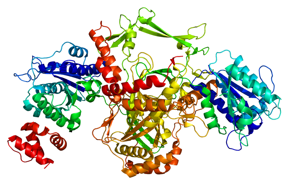 Structure of the XRCC5 protein. Based on PyMOL rendering of PDB 1jeq.